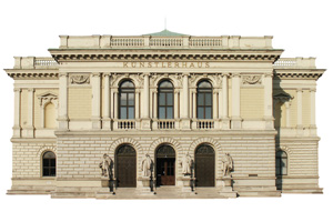 Künstlerhaus © Künstlerhaus